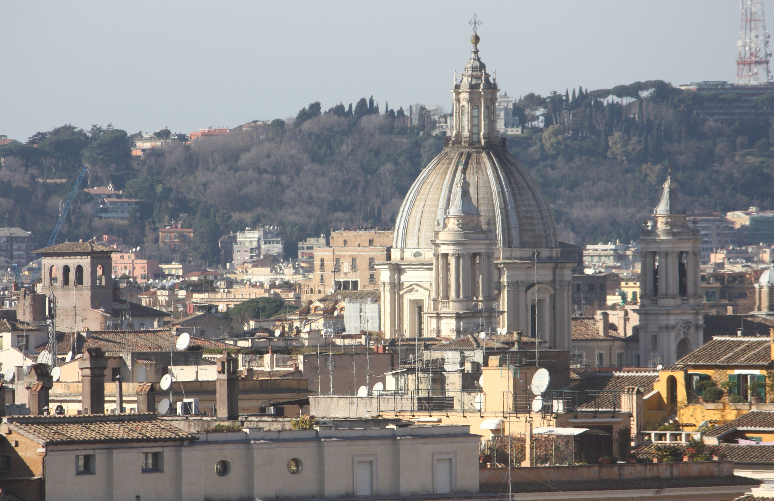 Rome, view from Palazzo Caffarelli to the church Sant'Agnese in Agone